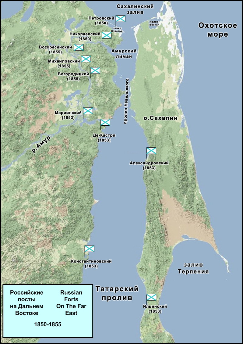 Russian Forts On The Far East 1850-1853